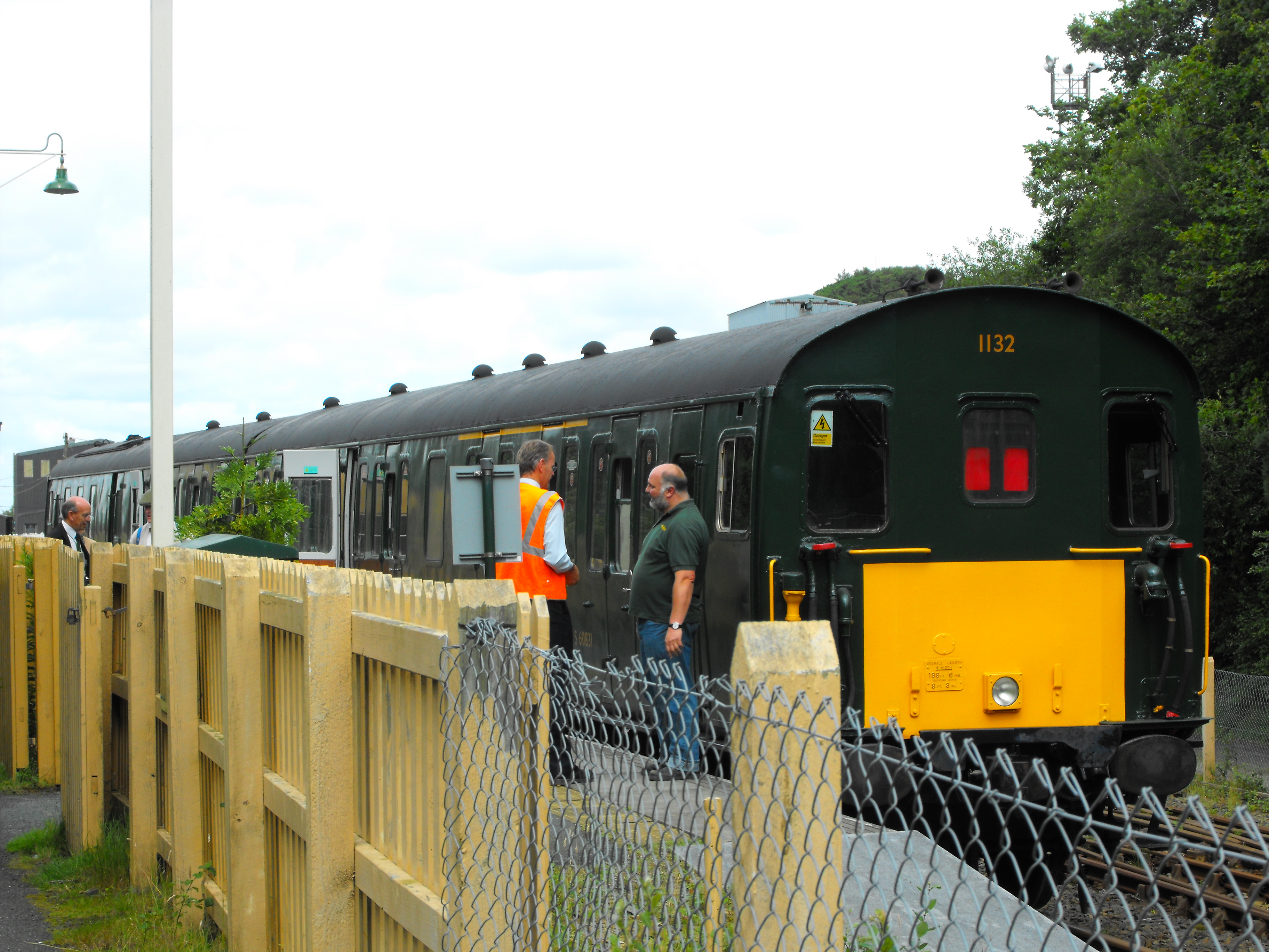 Heritage train on Okehampton railway